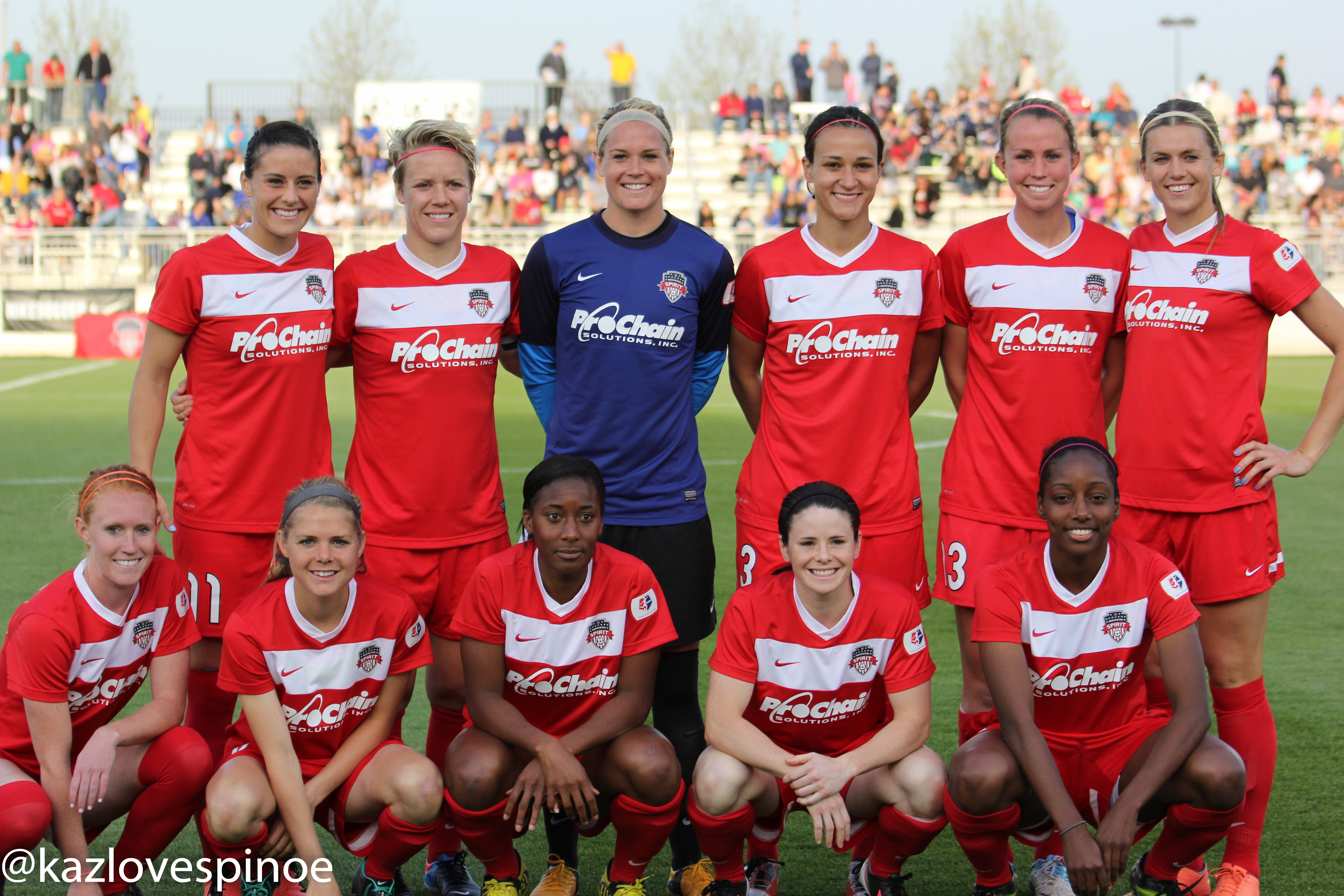 Washington Spirit - Starting XI